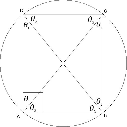 petolmy's theorm / pythagorean theorm